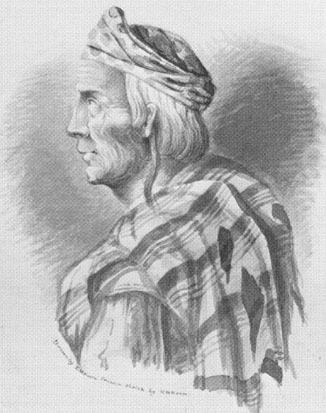 Narbona sketch by Richard H. Kern. The Navajo leader sat for this portrait on August 31, 1849, the day he was killed by US soldiers.